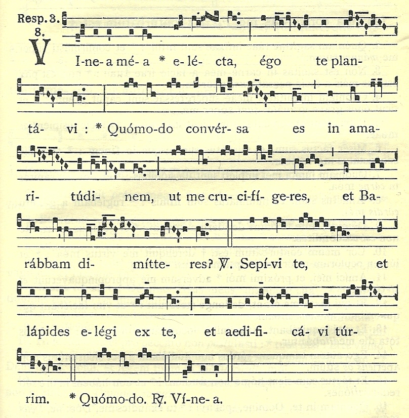 Responsorium 3 "Vinae mea", Matutin Holy Friday (Gregorian chant) Quelle: Liber Usualis Missae et Officii, Parisiis, Tornaci, Romae 1954, p. 675